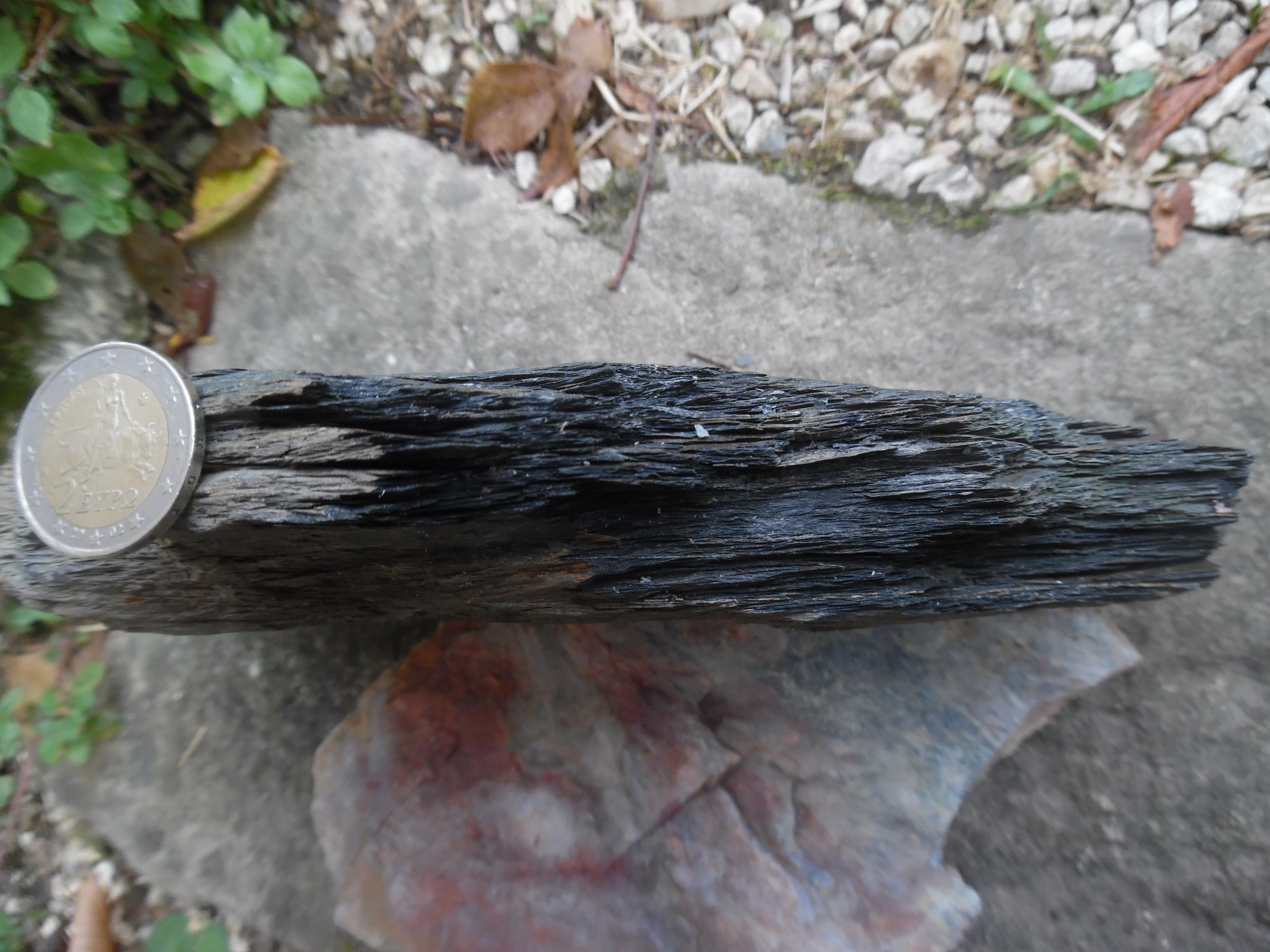 Dark sericite schist belonging to the Génis Sericite Schist and coming from the Cubas Syncline, just north of Cherveix-Cubas, Dordogne, France. View is across grain.